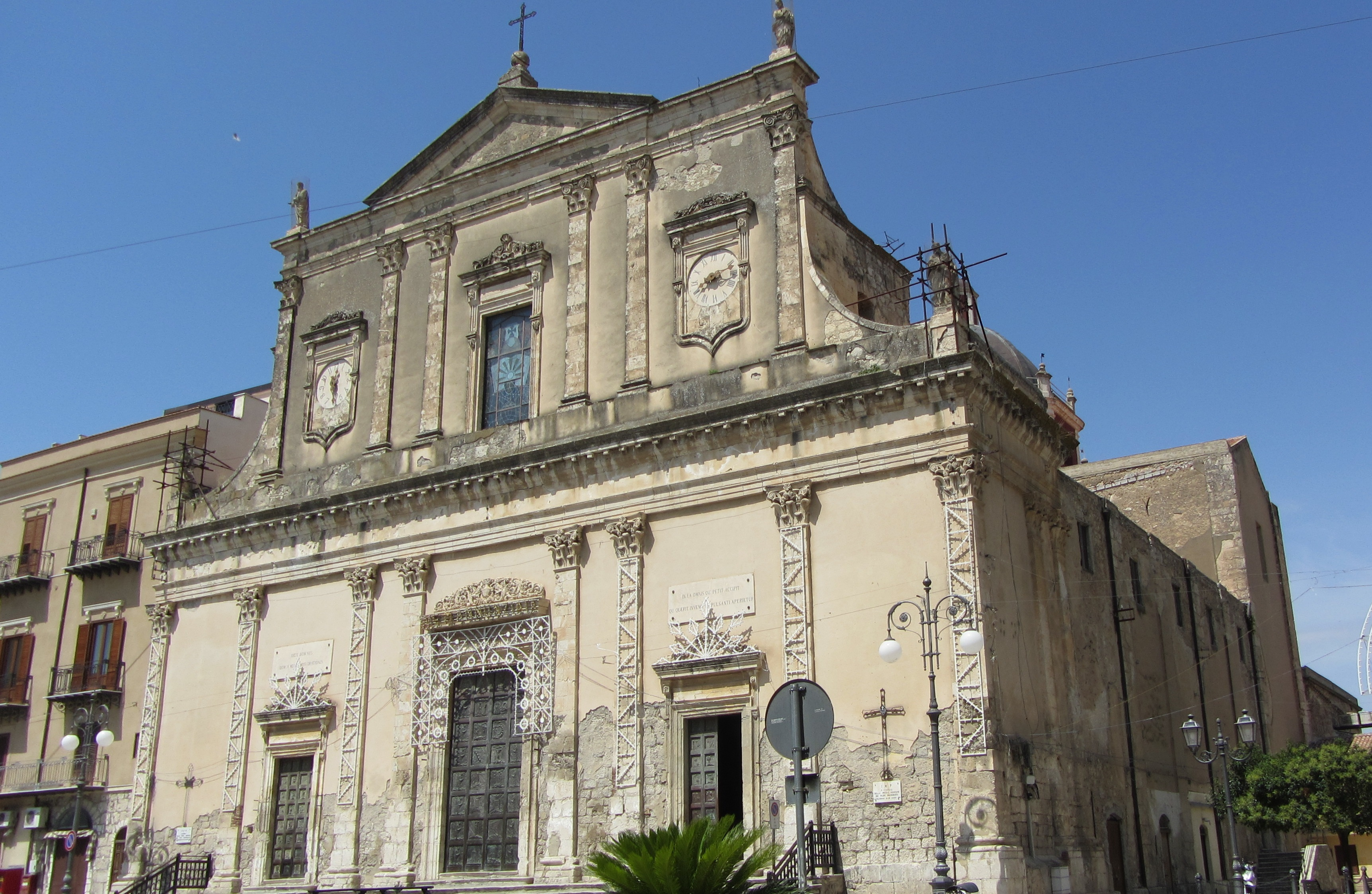 chiesa madre mother church casteltermini Agrigento sicily italy